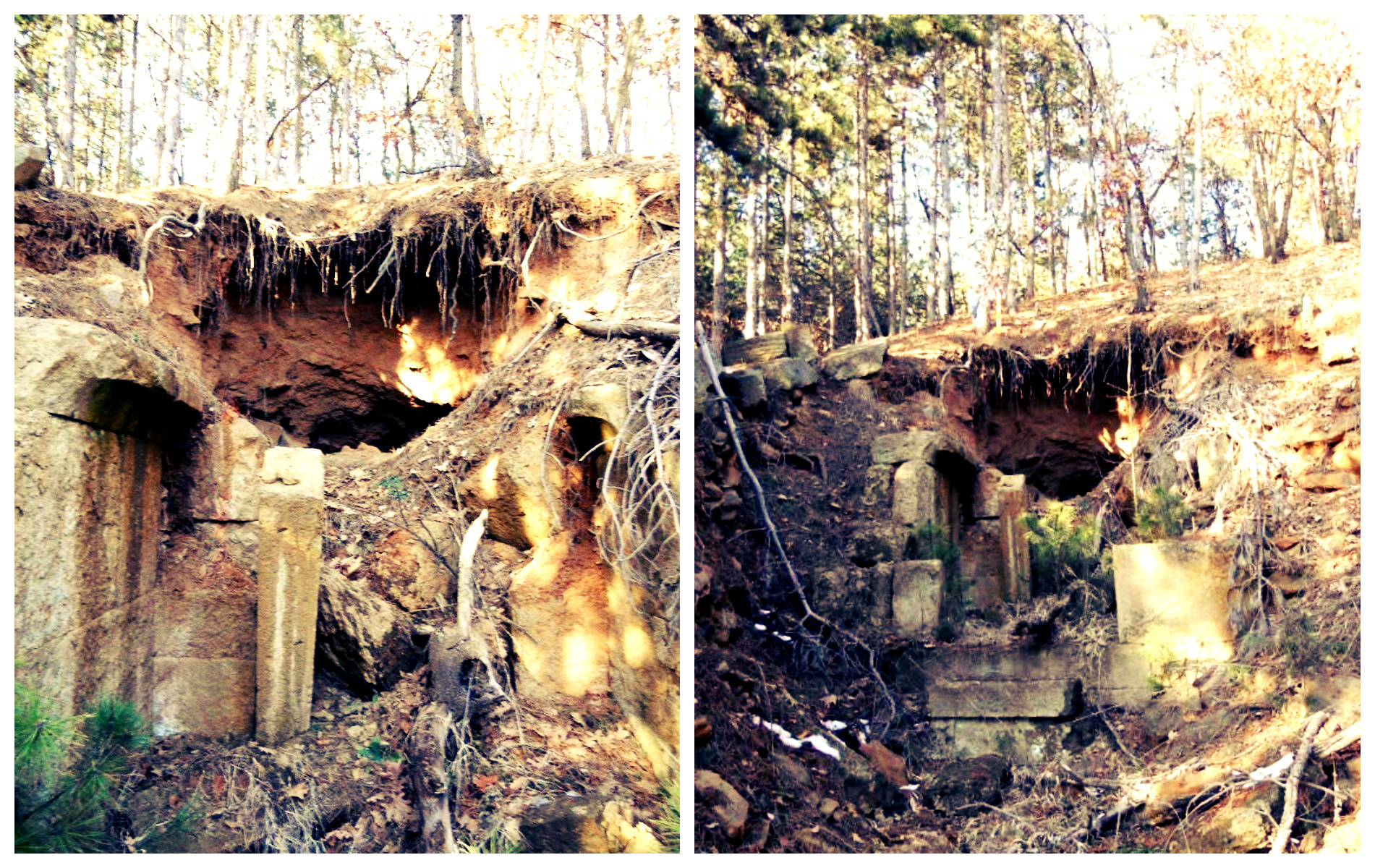 Manyov dol temple Starosel Bulgaria